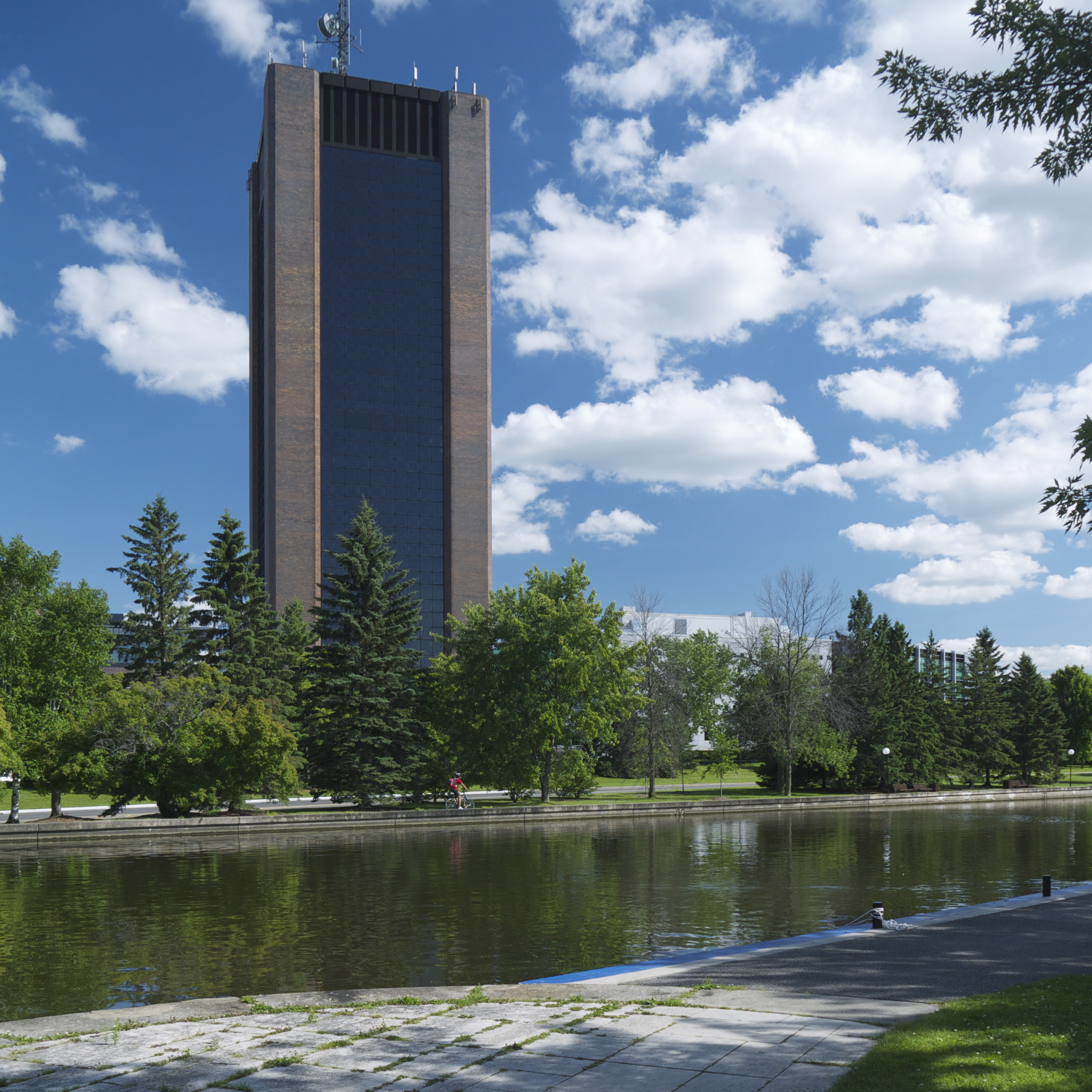 Dunton Tower at Carleton University, Ottawa. Rideau Canal in the foreground.